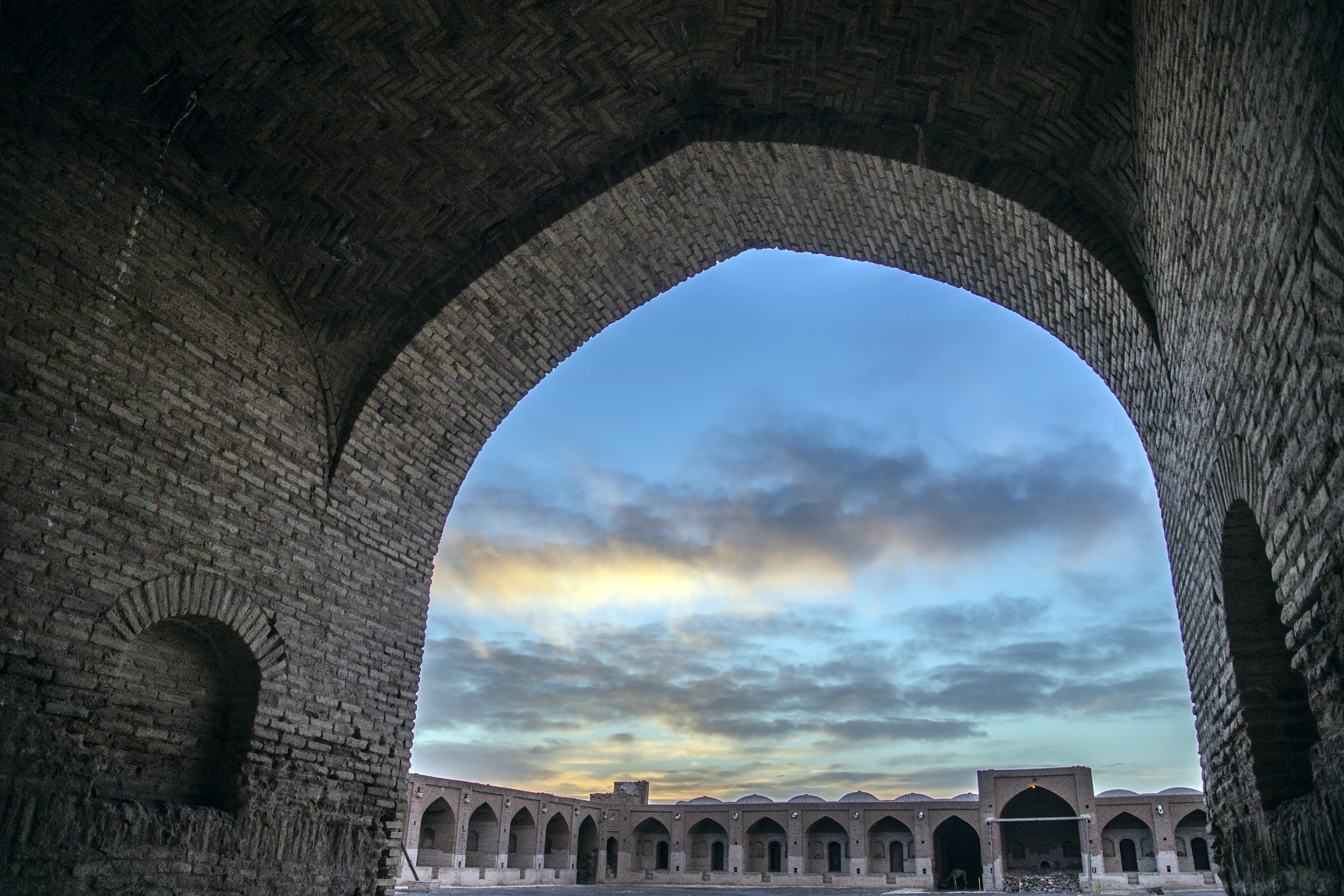 Deir-e Gachin Caravansarai is one of the greatest caravansarais of Iran which is located in the center of Kavir National Park.